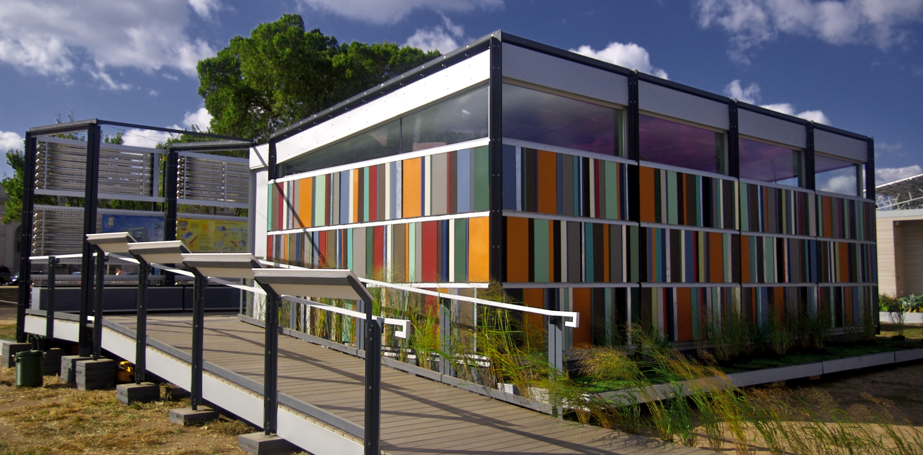 Solar Decathlon 2007, University of Cincinnati house.